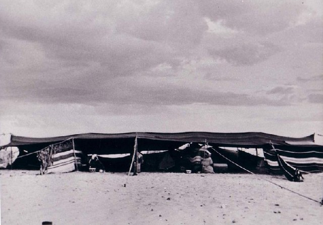 Art of Israel